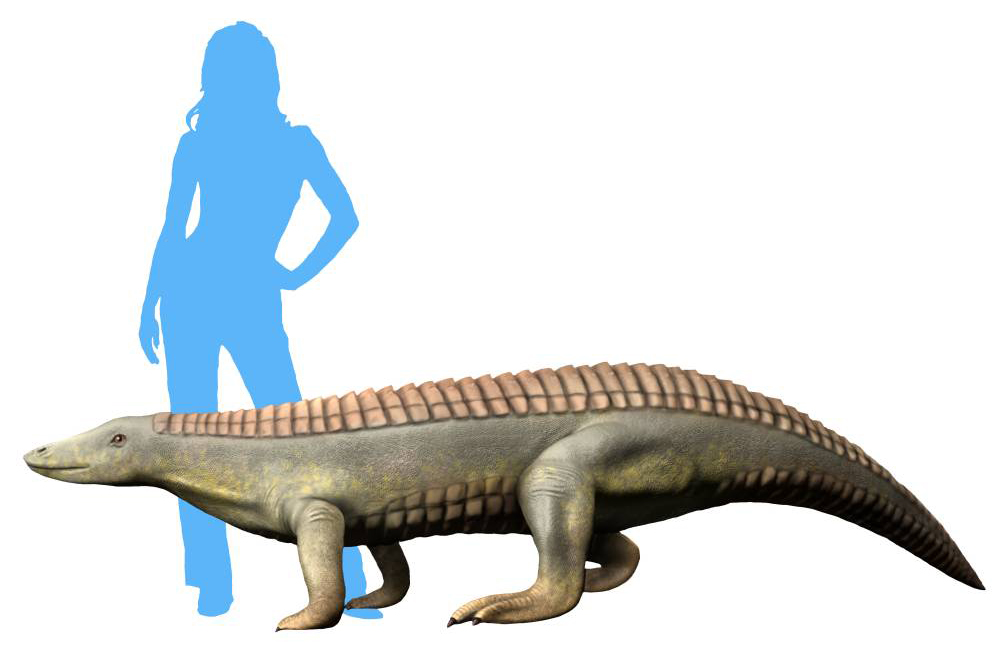 Life restoration of Aetosauroides scagliai